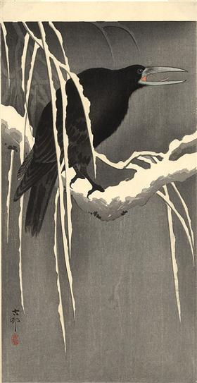 Work by Ohara Koson